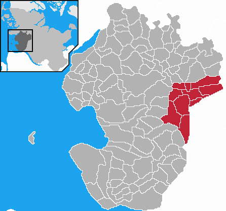 This map shows the area of the Amt Albersdorf in the district Dithmarschen, Schleswig-Holstein, Germany.